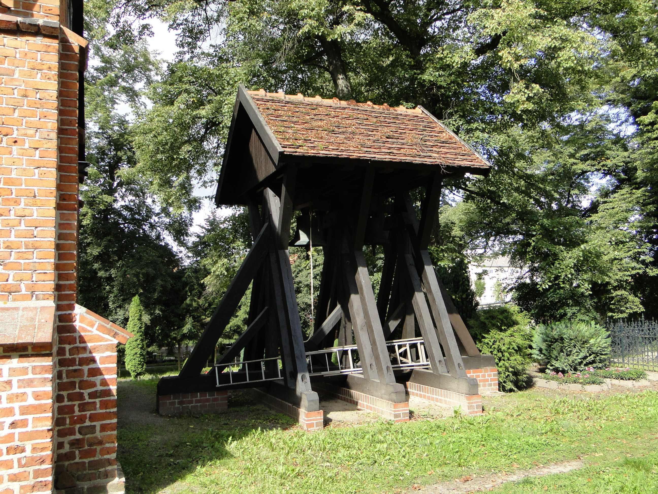 Wooden bell tower in Möllenhagen, district Müritz, Mecklenburg-Vorpommern, Germany